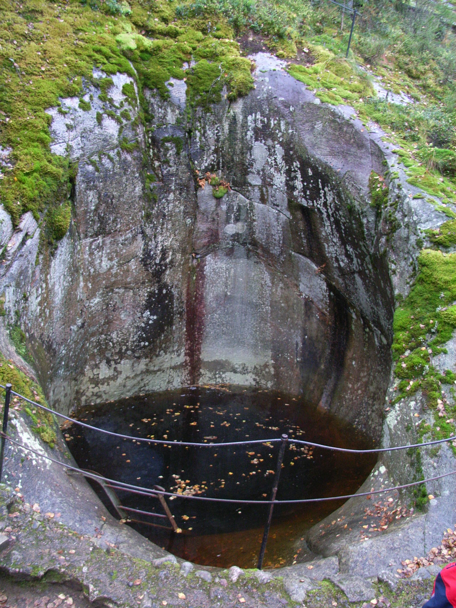 Hiidenkirnut (Askola/Finland), "Badewanne des Riesen" (10 meters deep, 4 meters diameter)